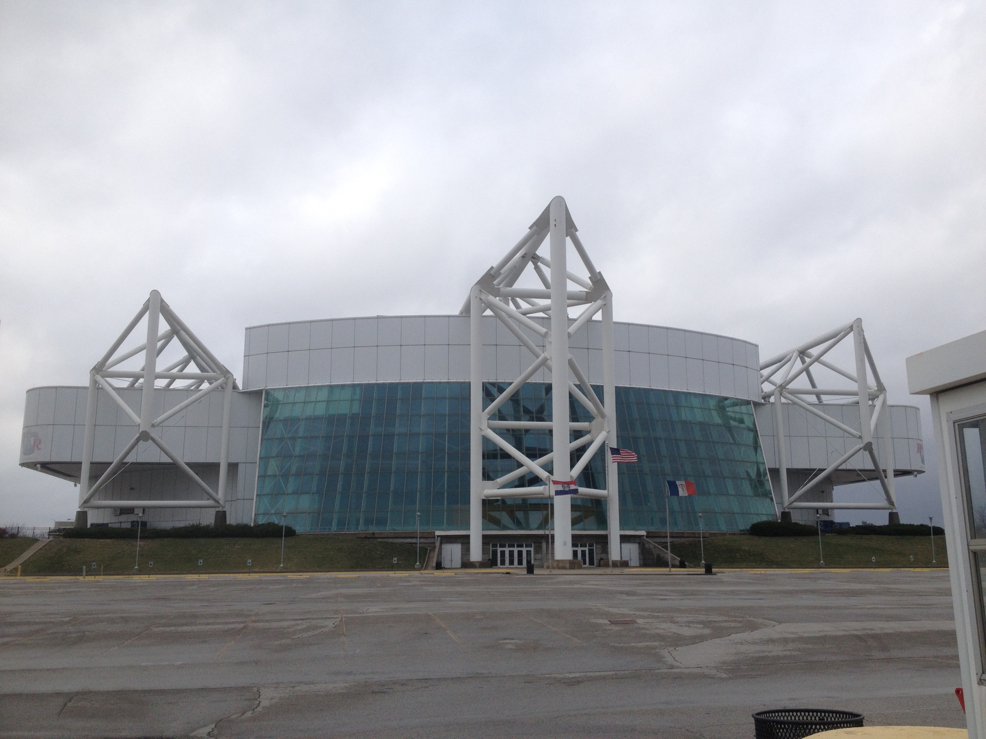 A front view of Kemper Arena(as known when this photo was taken)